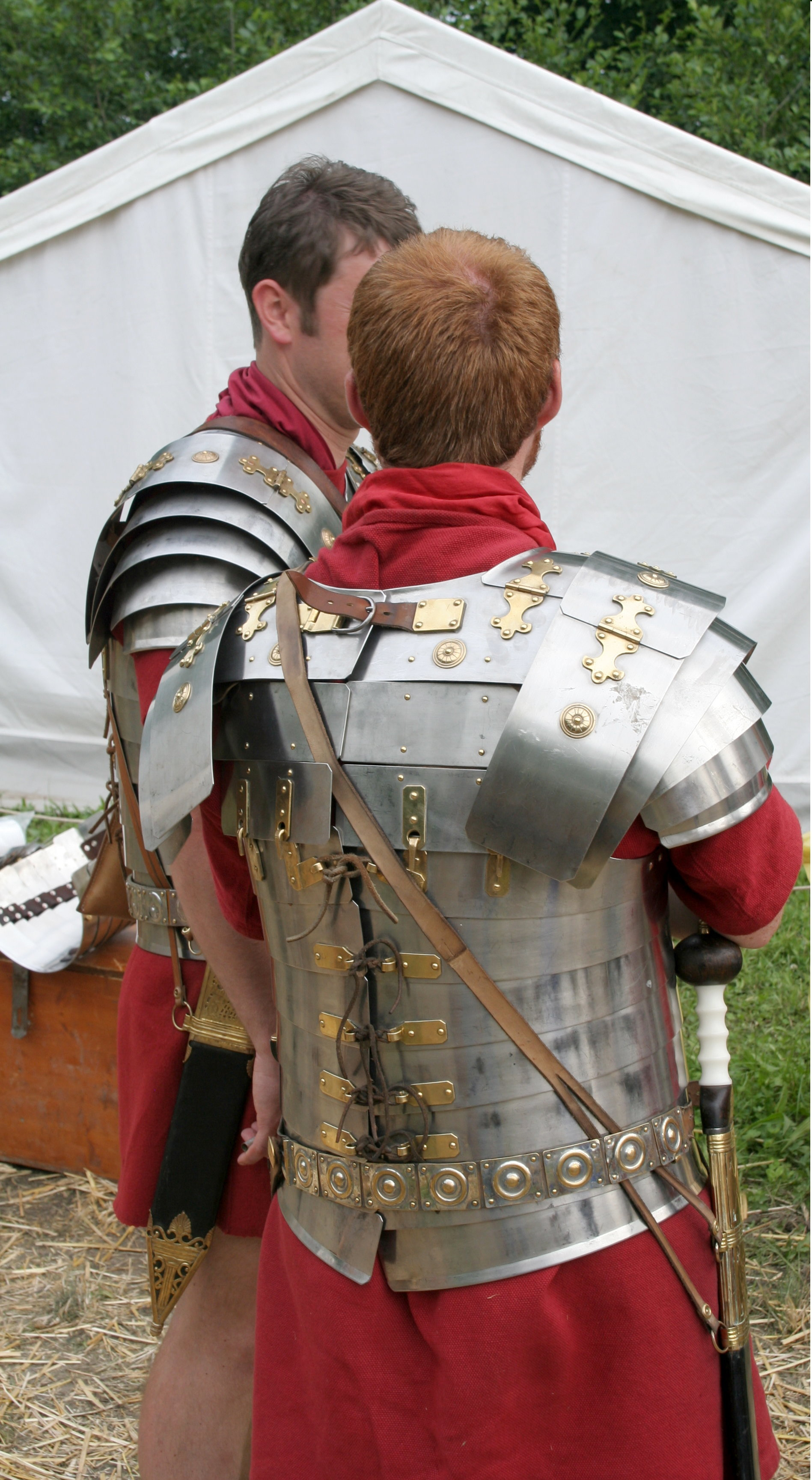 Lorica segmentata from back Photographed by myself during a show of Legio XV from Pram, Austria